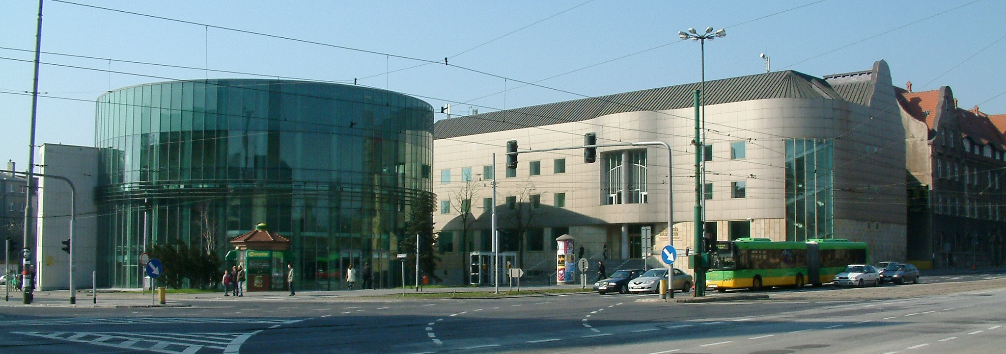 Academy of Music in Poznań.